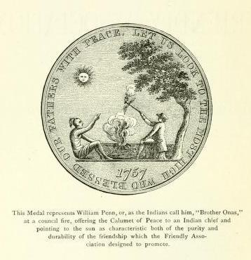 Medal of the Friendly Association for Regaining and Preserving Peace with the Indians by Pacific Measures, 1757. Caption: This Medal represents William Penn, or as the Indians call him, "Brother Onas", at a council fire, offering the Calamut of Peace to an Indian chief and pointing to the sun as characteristic both of the purity and durability of the friendship which the Frienfly Association designed to promote.